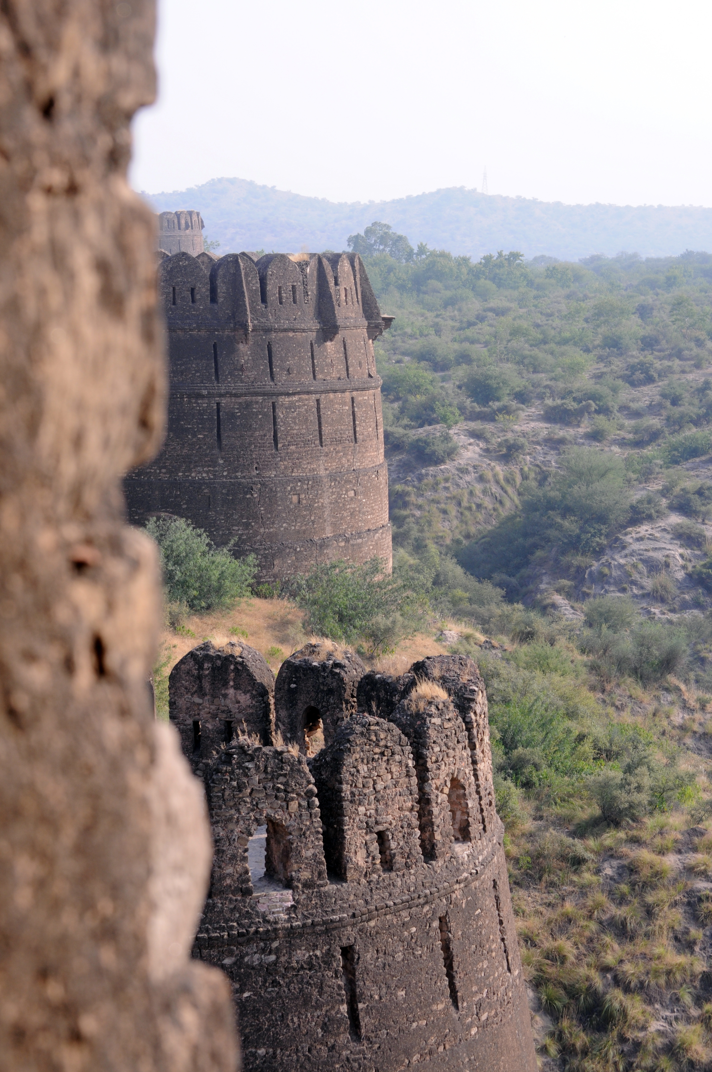 Rohtas Fort This is a photo of a monument in Pakistan identified as the PB-30